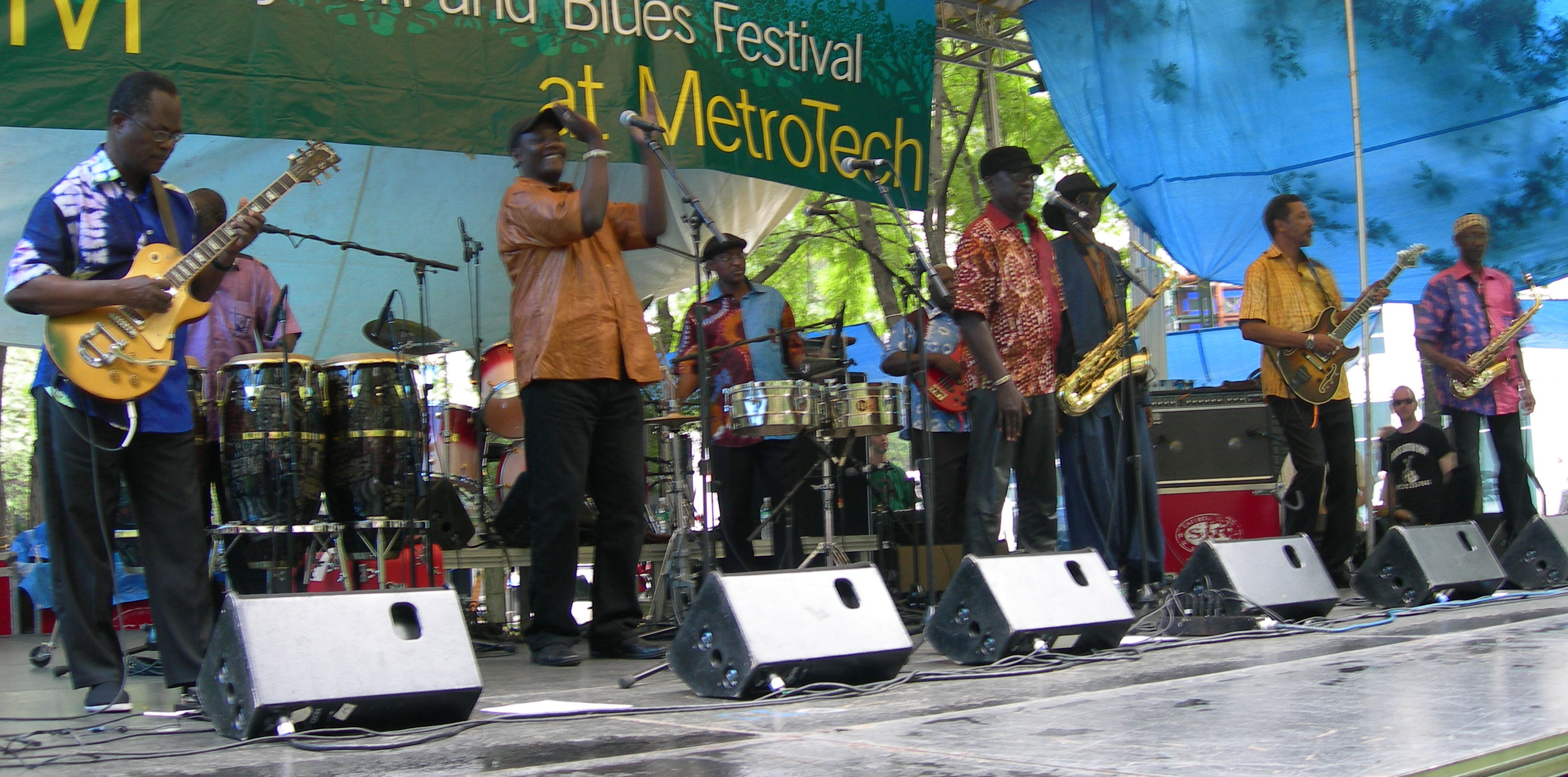 Orchestra Baobab perform at Metrotech Center, Brooklyn, New York. 2008-06-26.